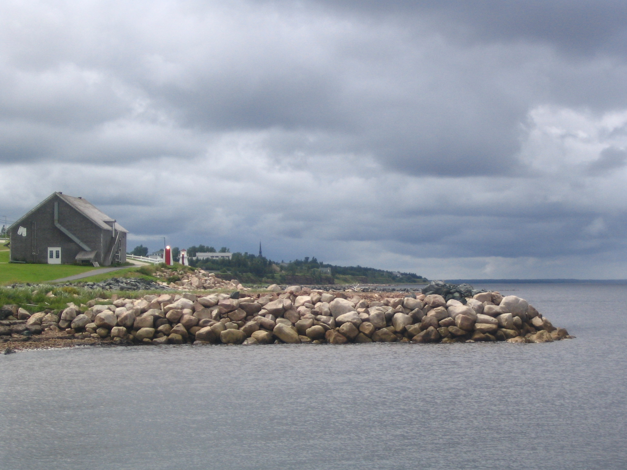 The Boîte-Théâtre theater in Caraquet, New Brunswick, Canada.